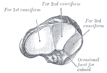 FIG. 276– The left navicular. Antero-lateral view.